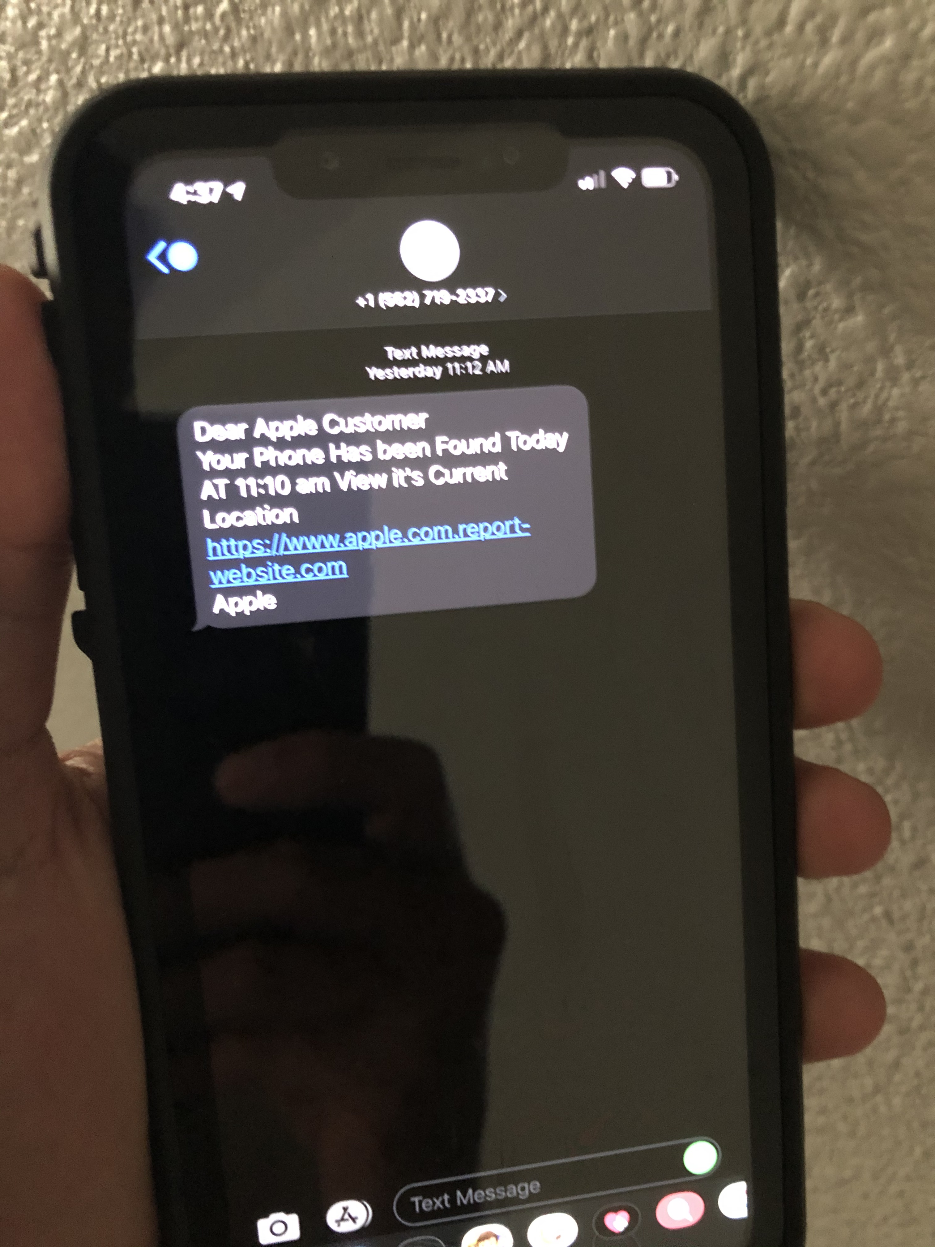 The victim received a text message from the PHaaS provider to a fake login portal.